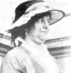 An image of Lady Millie Gertrude Peacock which appeared in the 16 March 1916 edition of Table talk. The original image features another person and Lady Peacock's full body; this image has been cropped.